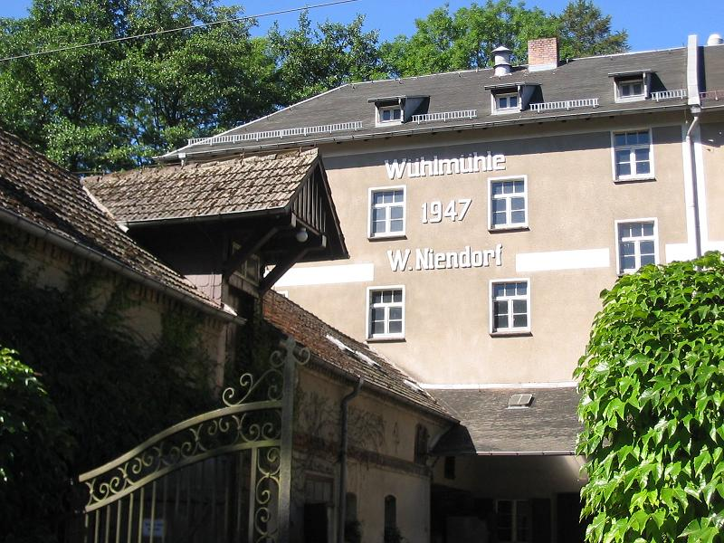 Watermill „Wühlmühle“ at stream Plane nearby Neschholz. The village Neschholz is an incorporated part of the town Belzig in the district Potsdam Mittelmark, state Brandenburg, Germany. Belzig appertains to the natural preserve Naturpark Hoher Fläming.